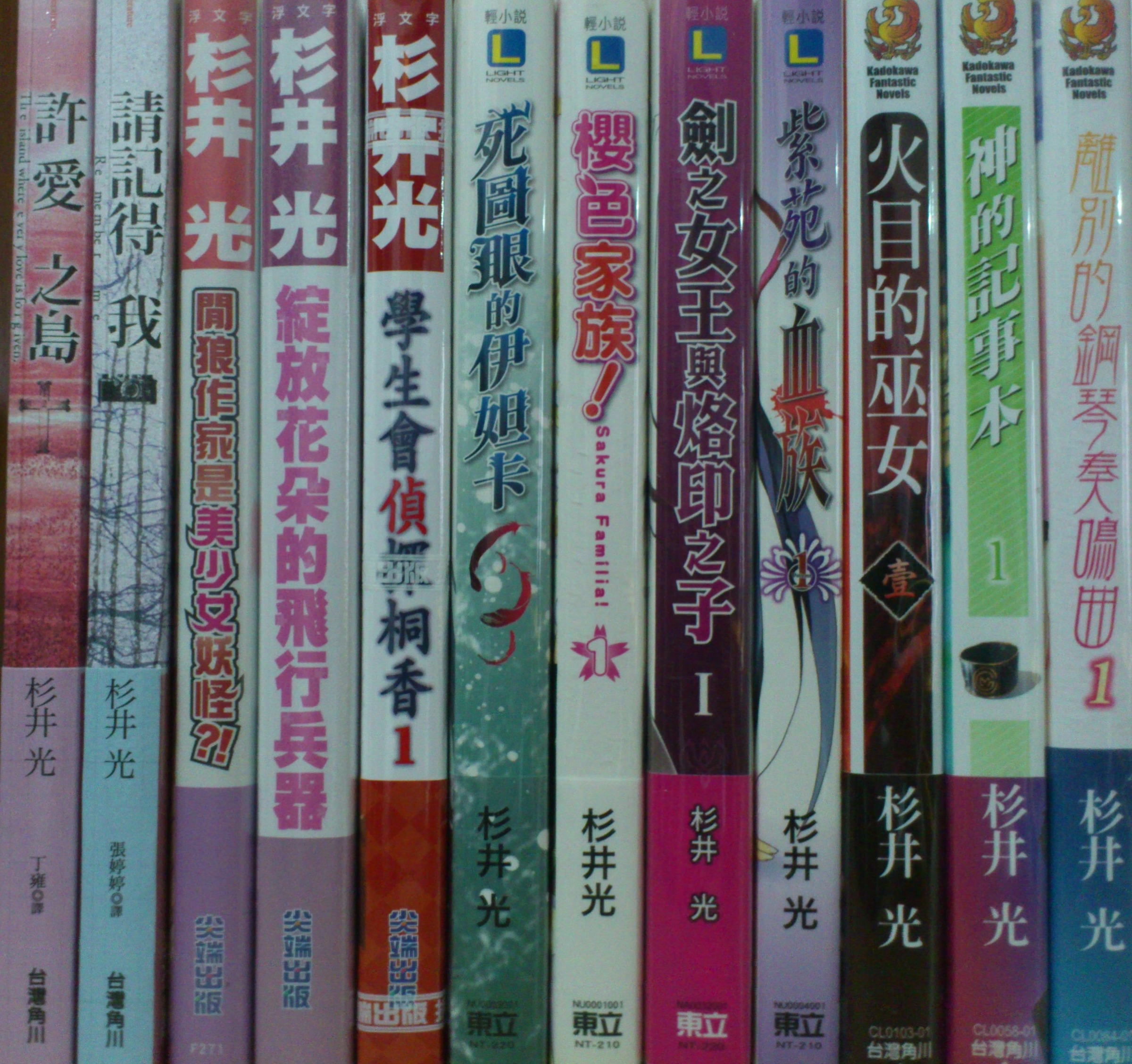 Taiwan Chinese edition of Sugii Hikaru's light novels.中文（台灣）: 杉井光輕小說作品的臺灣中文版，由臺灣角川、尖端出版與東立出版社出版。